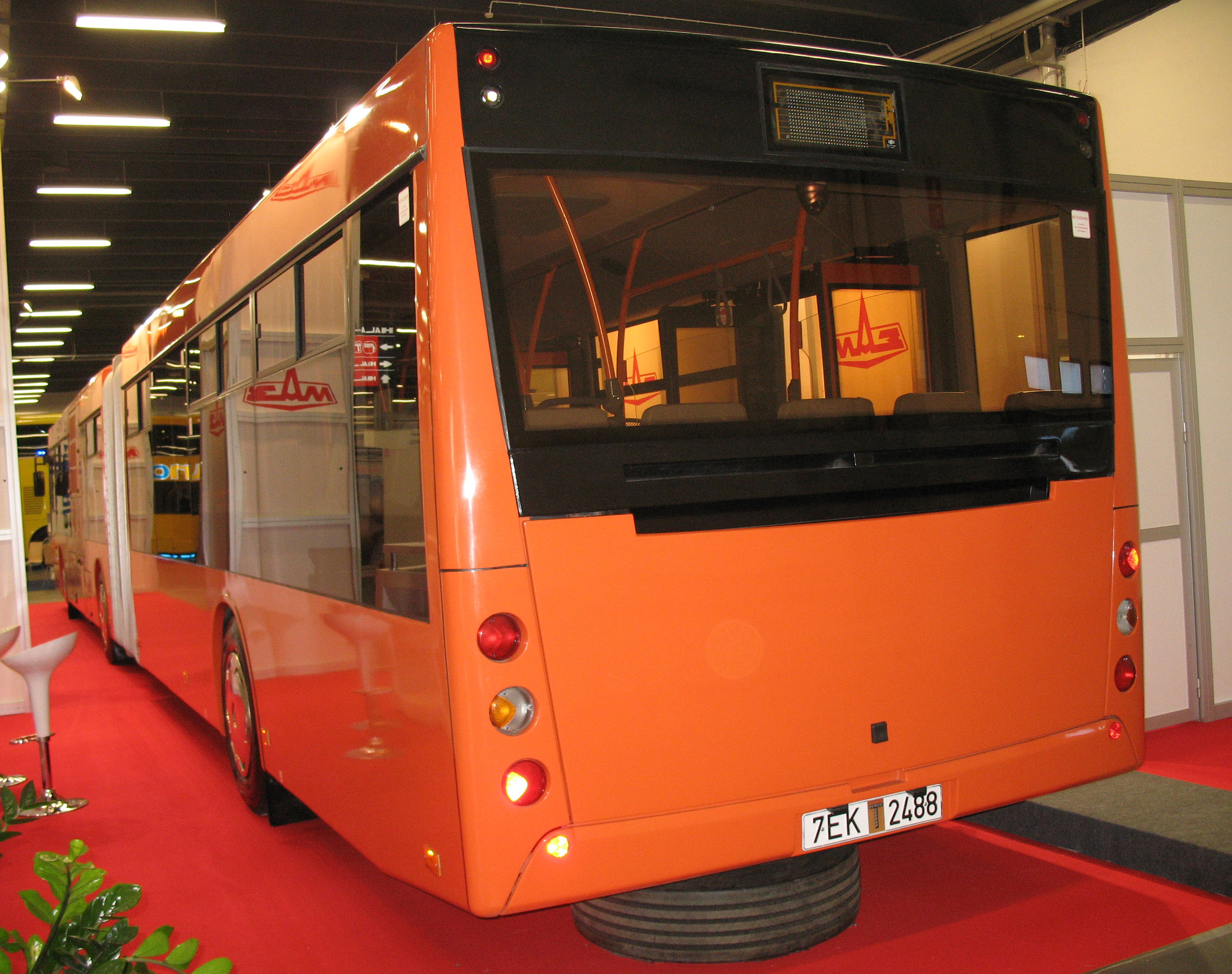 MAZ 205 (orginal МАЗ 205) city bus (reg. 7EKT2488) in Kielce, Poland. Built 2009, Transexpo 2010.